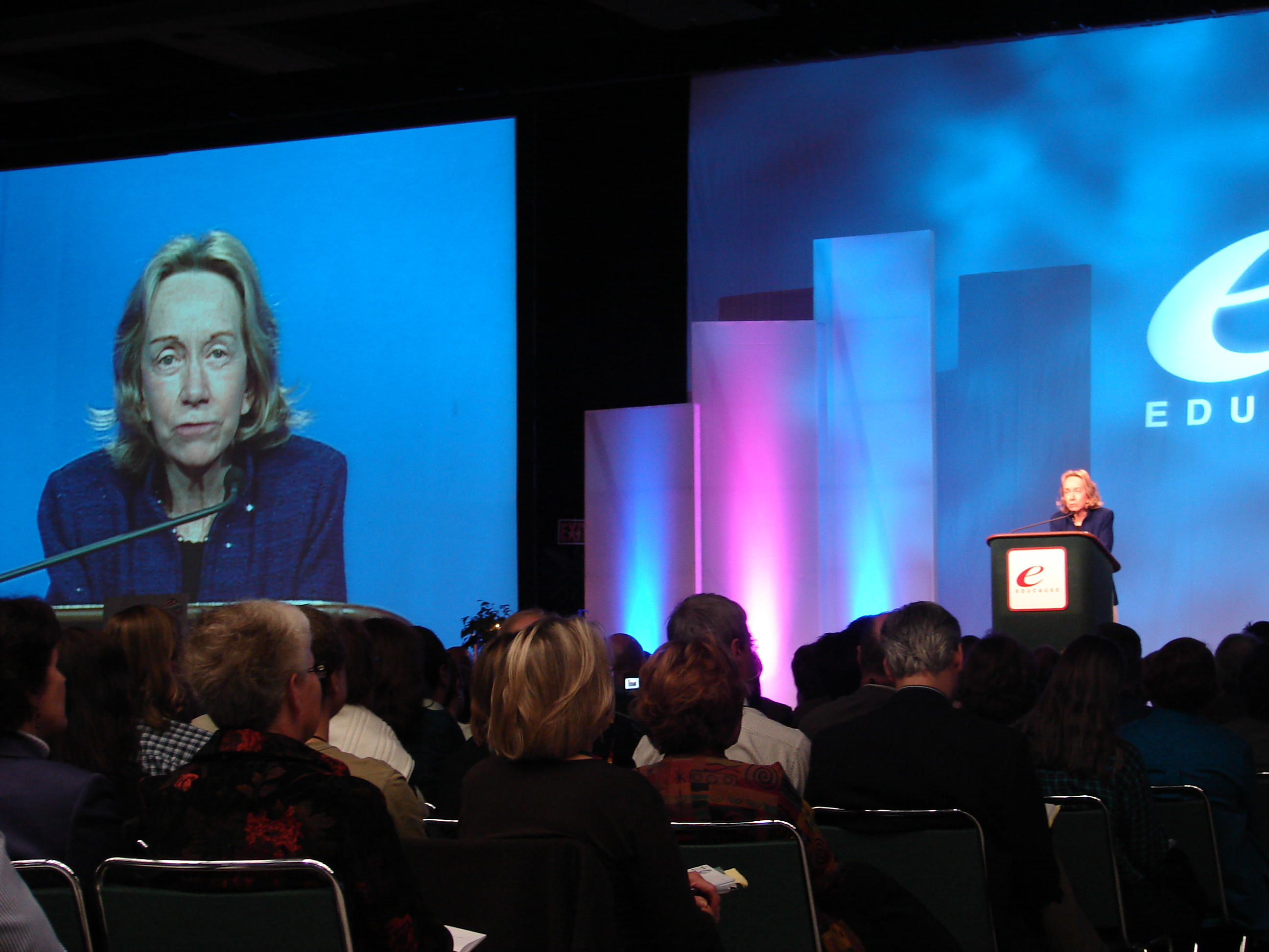 Historian and author Doris Kearns Goodwin speaking at a conference in Seattle, Washington.